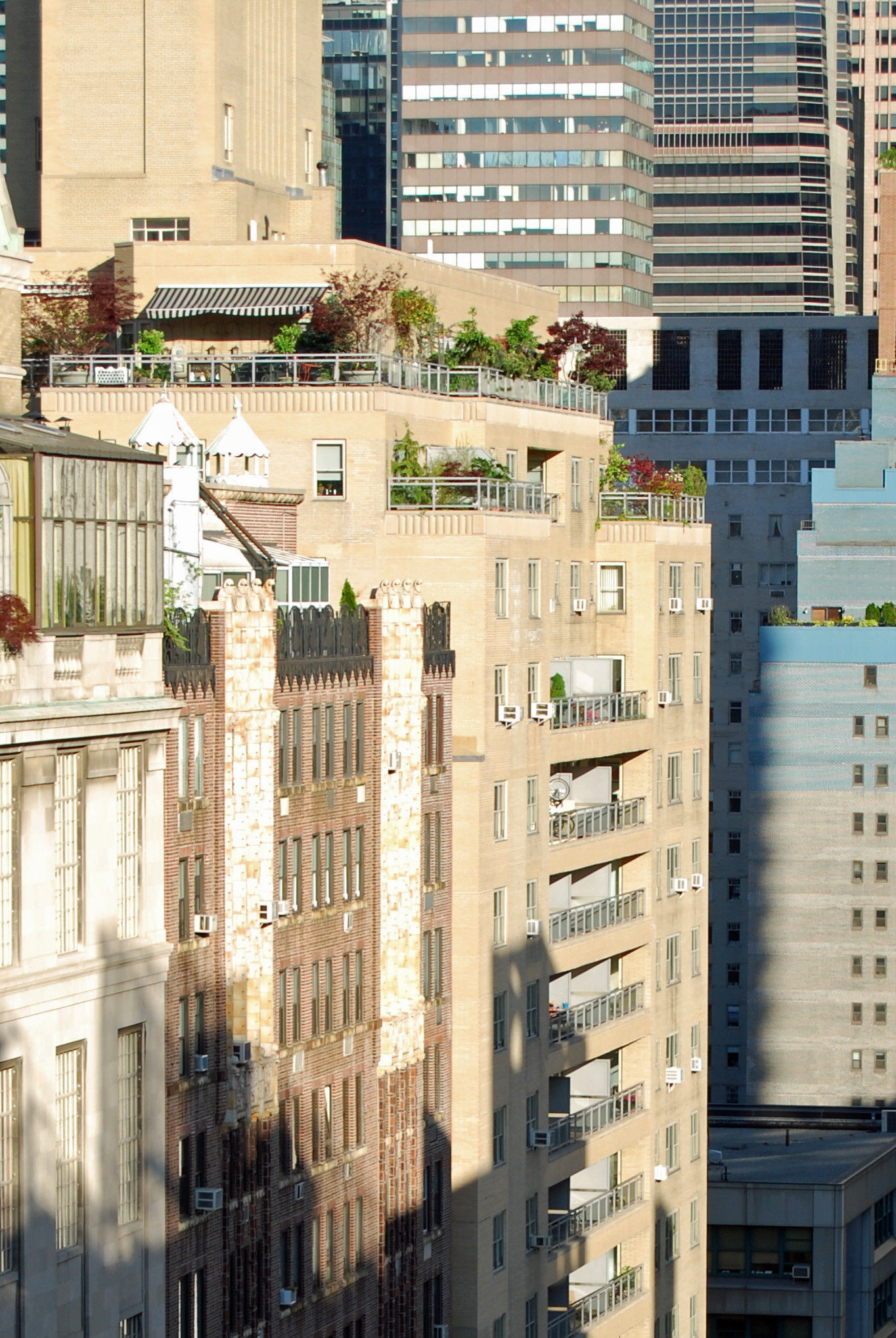 The upper floors of the apartment building at 300 East 57th Street, at the south east corner of Second Avenue in New York City.